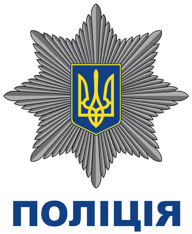 Logo of Ukrainian National Police